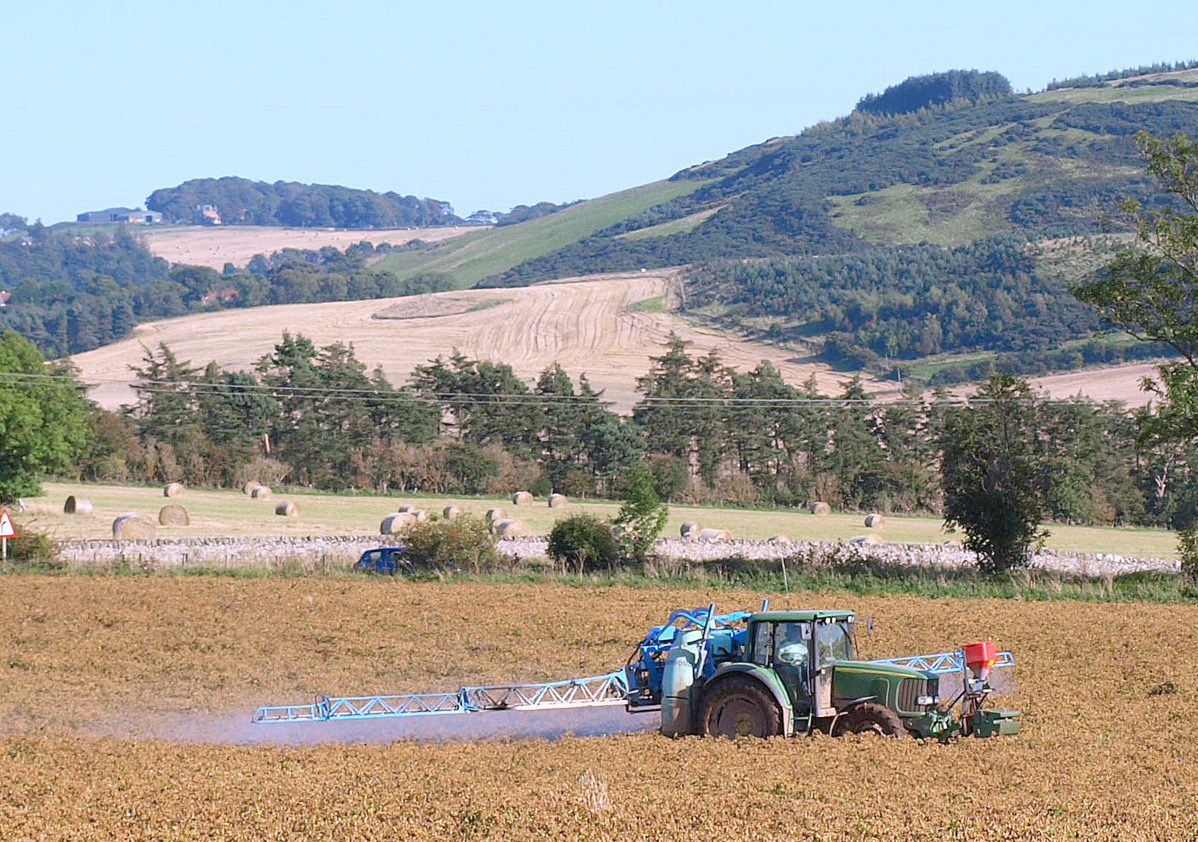 A John Deere tractor and a gantry Berthoud sprayer working in a potato field near Rathillet, Fife, Scotland, UK